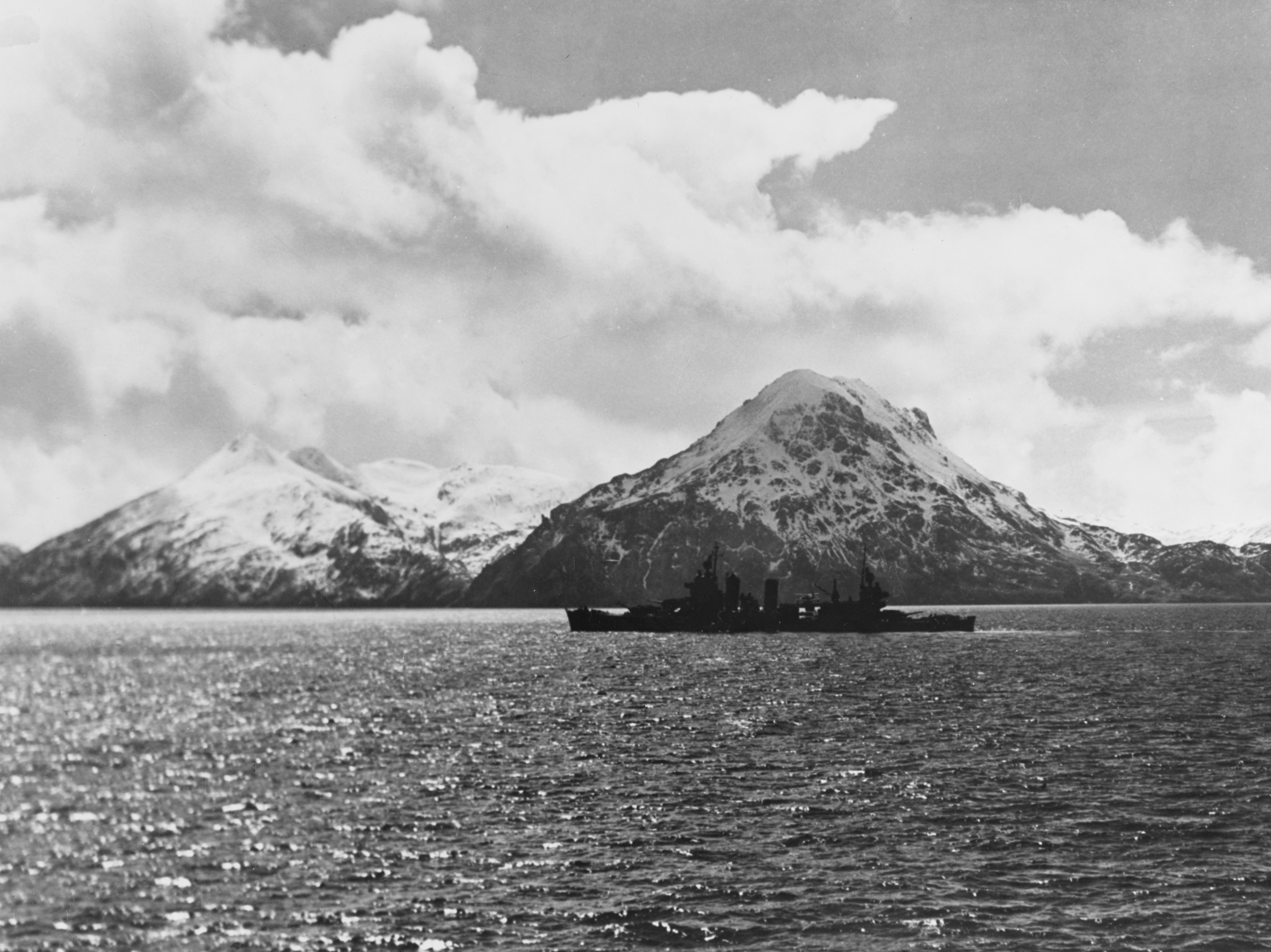 The U.S. Navy heavy cruiser USS San Francisco (CA-38) silhouetted against a snowy mountain in Kulak Bay, Adak, Aleutian Islands (USA), on 25 April 1943.